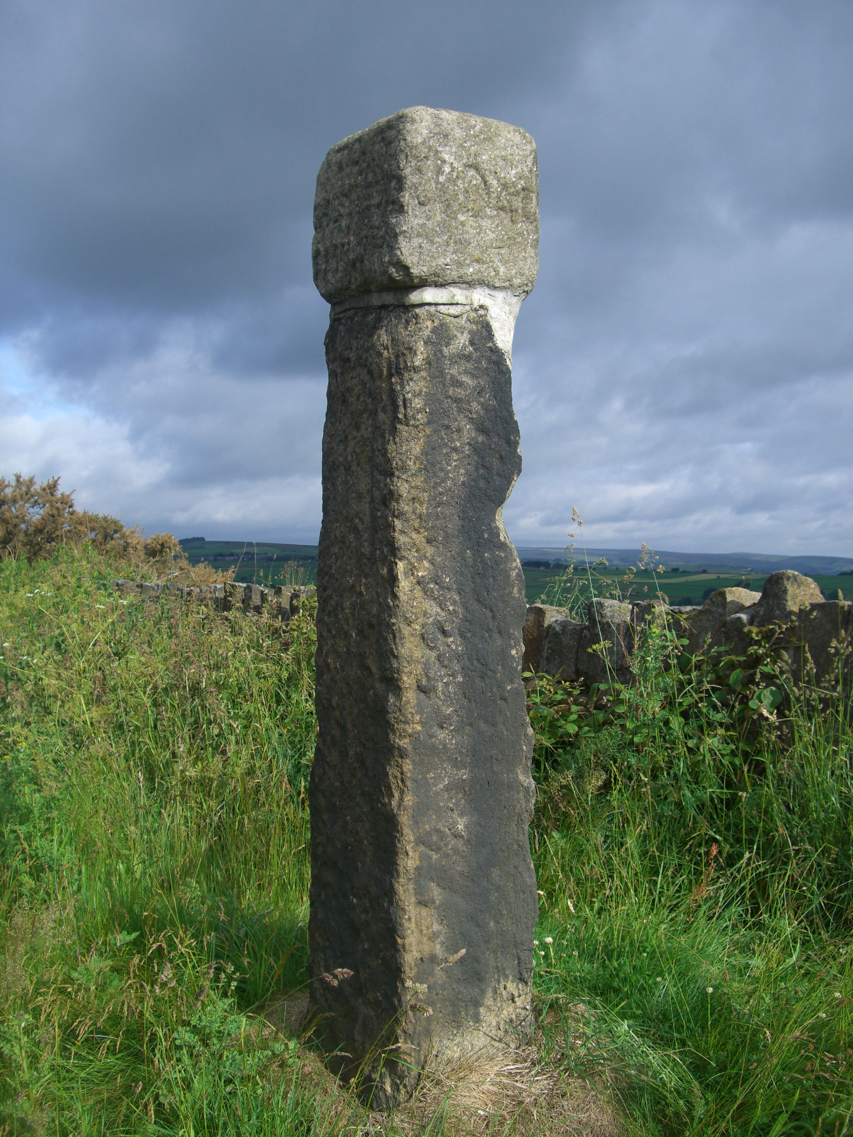 Barncliff Stoop, a 14th century gritstone stone post which marks the route of the Long Causeway ancient packhorse route. It stands on Redmires Road at the junction with Hallam Grange Road in Sheffield, England. It is a Grade II Listed structure.